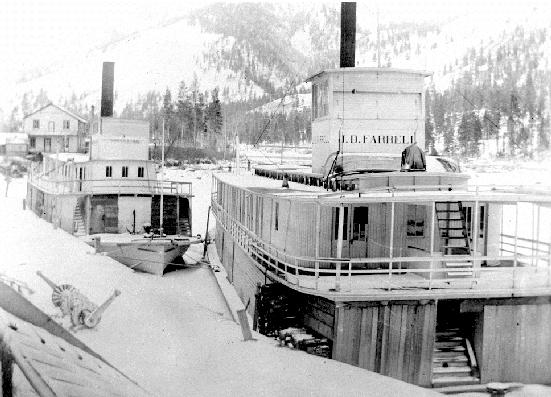 J.D. Farrell and North Star at Jennings, Montana, ca 1900, apparently out of service during winter.